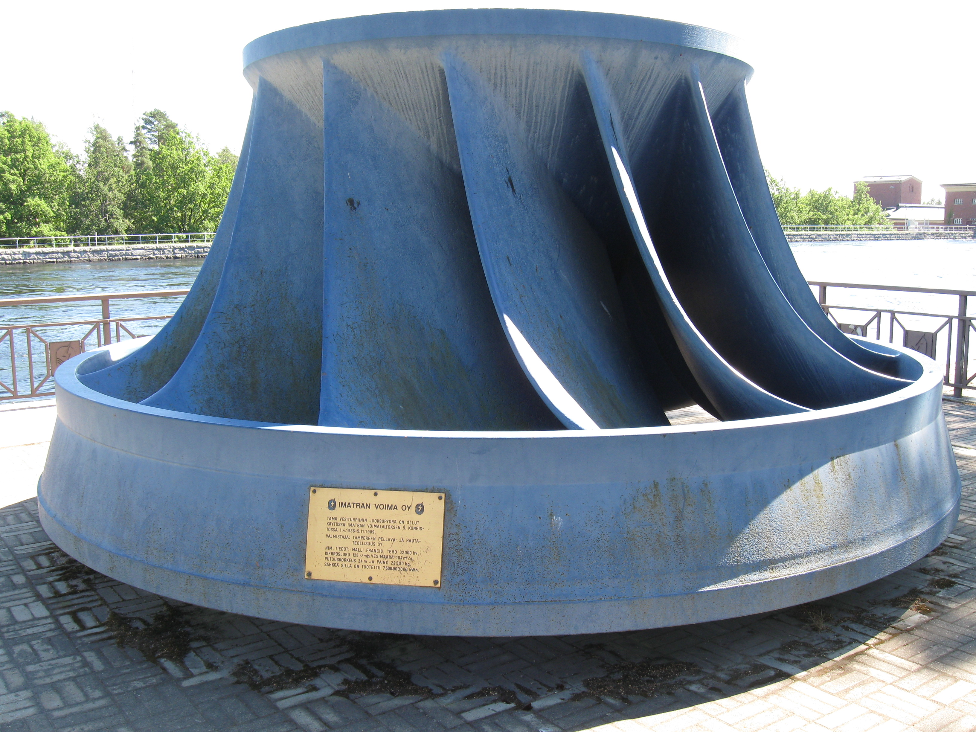 The runner of the Francis type turbine of the Imatrankoski power plant in Imatra, Finland, in use from 1936 to 1989.